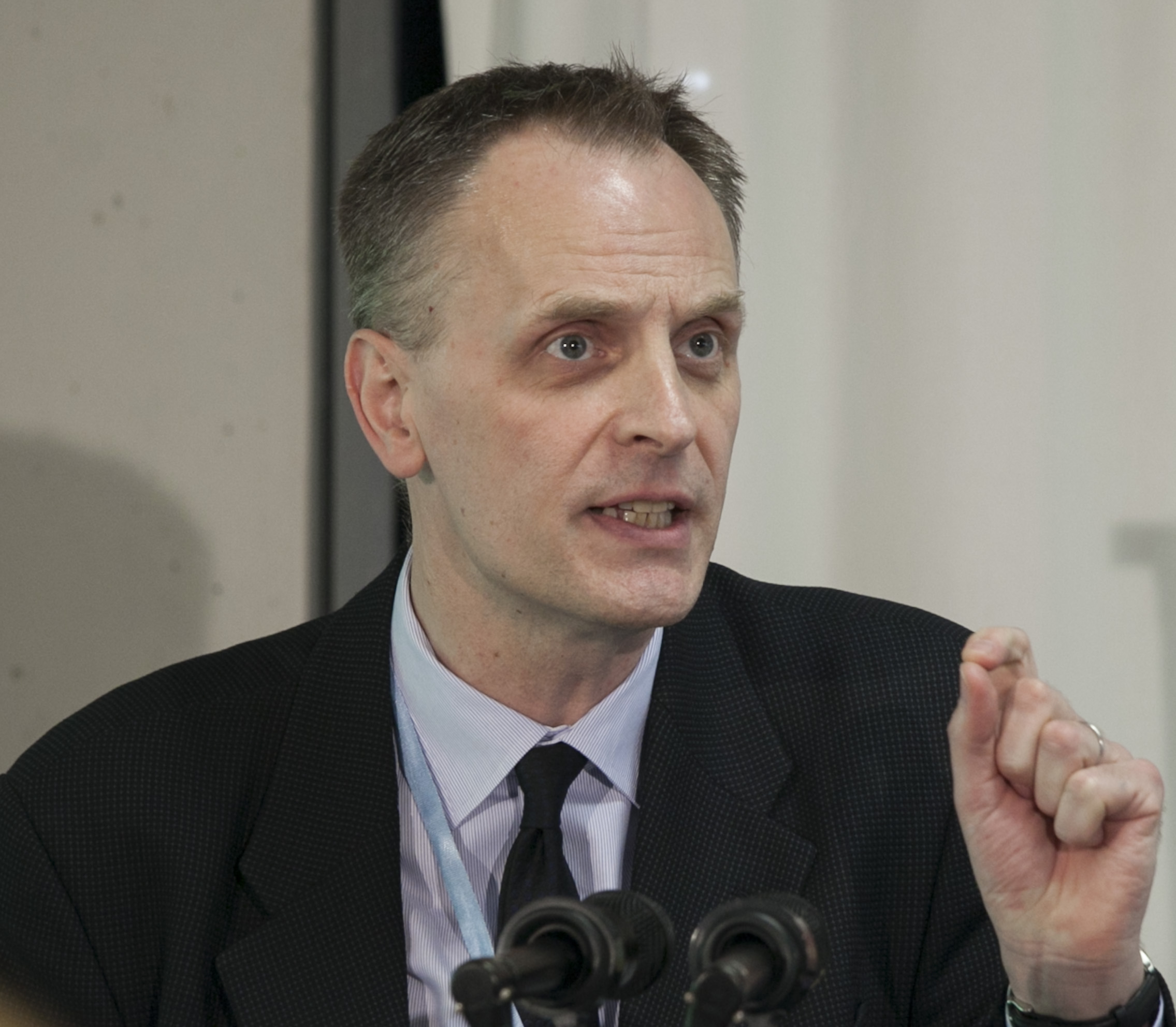 The Aspen Institute organized the presentation of the 2013 Global Leaders Council for Reproductive Health Award in Geneva on the margins of the 66th World Health Assembly. The Gambia, Kenya, Zambia and Sierra Leone were recognized for their achievements as part of a USAID funded effort to recognize and encourage improvements in reproductive health. HHS Assistant Secretary for Global Affairs, Dr. Nils Daulaire and USAID Assistant Administrator for Global Health, Dr. Ariel Pablos-Méndez spoke at the event which was broadcasted live on the web by the U.S. Mission Public Affairs team.